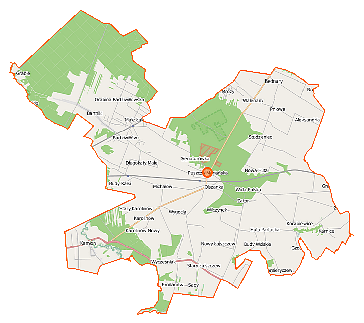 Map of Gmina Puszcza Mariańska, Poland This map of Puszcza Mariańska (gmina) was created from OpenStreetMap project data, collected by the community. This map may be incomplete, and may contain errors. Don't rely solely on it for navigation. Border coordinates52.059920.1912←↕→20.467951.9081